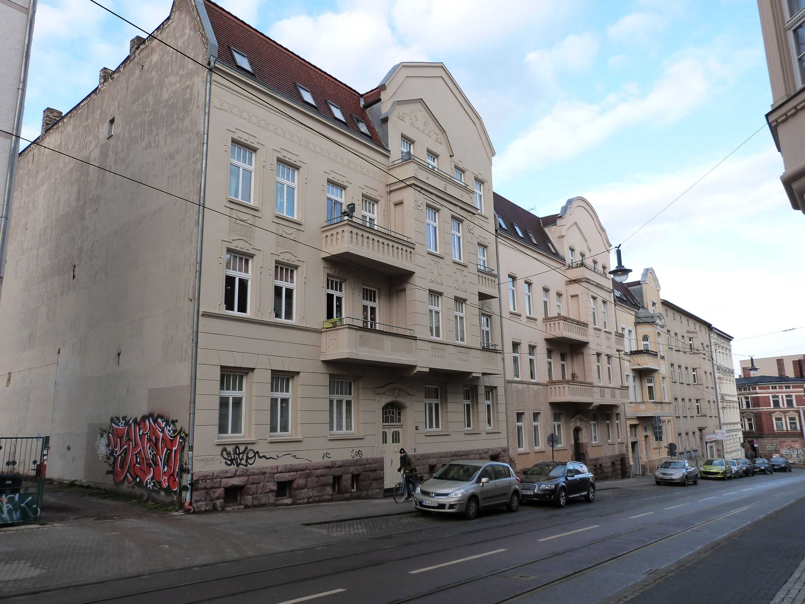 Street "Beesener Straße" No. 248-251, Halle (Saale)